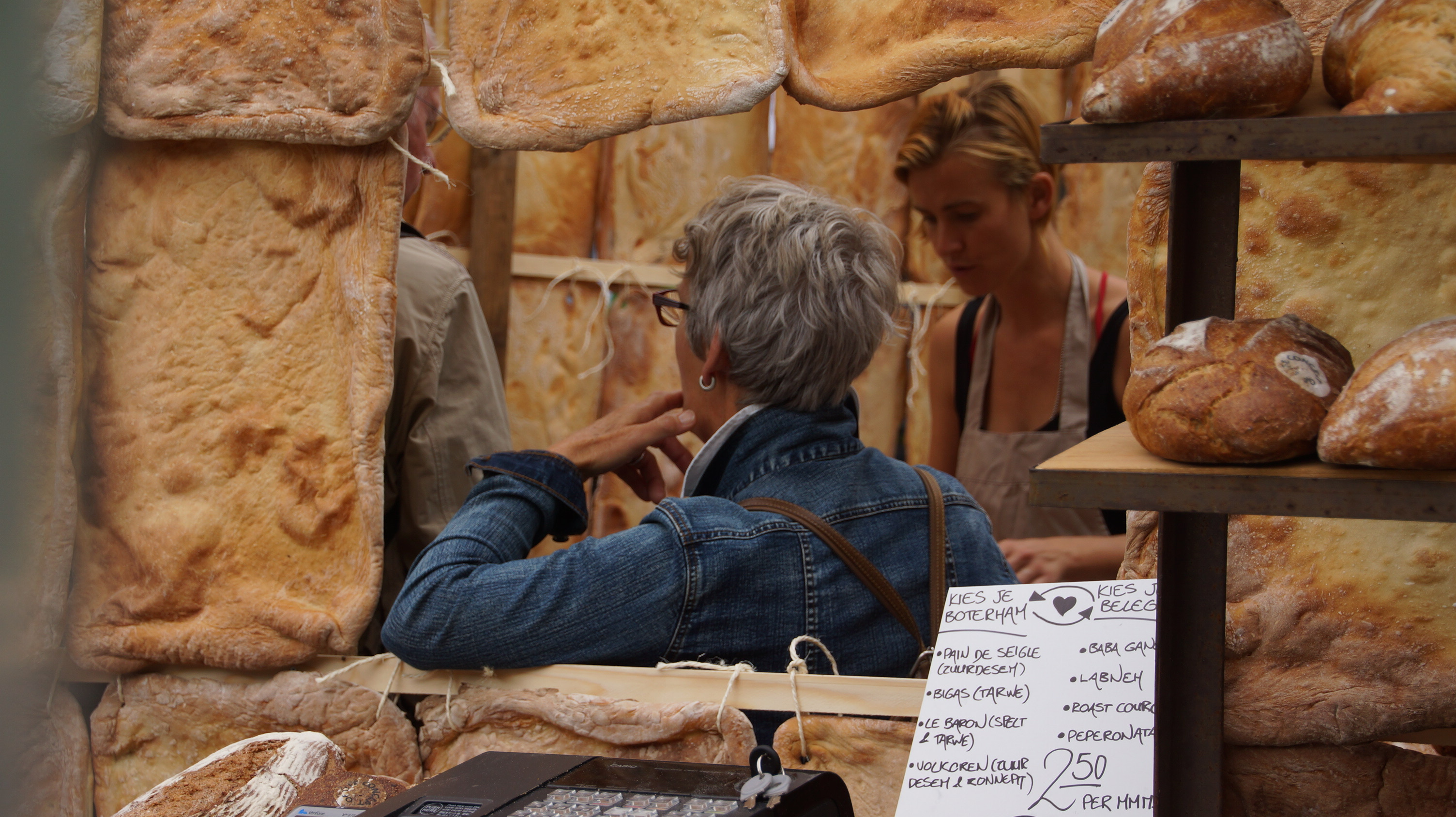 Concept of Life by Piet Hecker and Karel Goudsblom - NL Piet Hecker and Karel Goudsblom from the Netherlands demonstrated at the World Food Festival from 18 September to 27 October 2013 in Rotterdam that small scale activities could be the response to mass production without the need for large capital investment but by using high-quality ingredients. They installed a small bakery, where visitors could experience the complete process from making dough to eating bread.